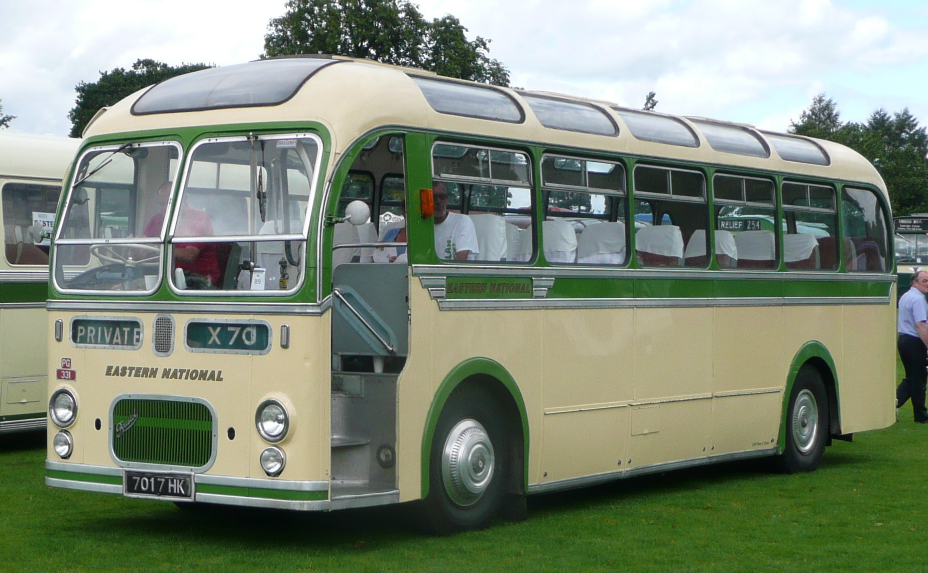 Preserved Eastern National 331 (7017 HK), a 1958 Bristol MW6G/ECW, at the 2008 Alton bus rally at Anstey Park.